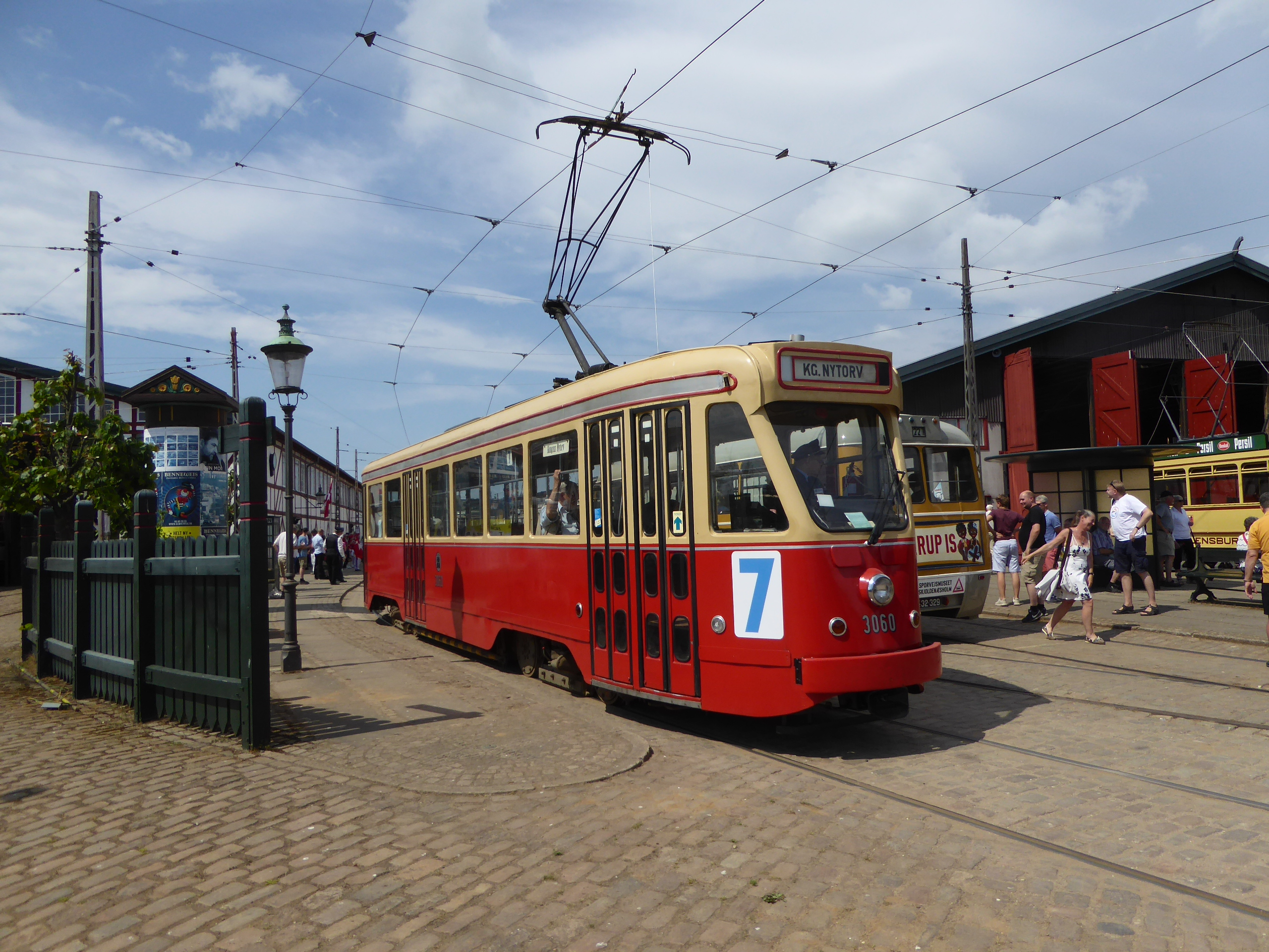 40 years anniversary of the tramway museum Sporvejsmuseet Skjoldenæsholm in Denmark. Old tram from Hamburg, HHA 3060 from 1951.